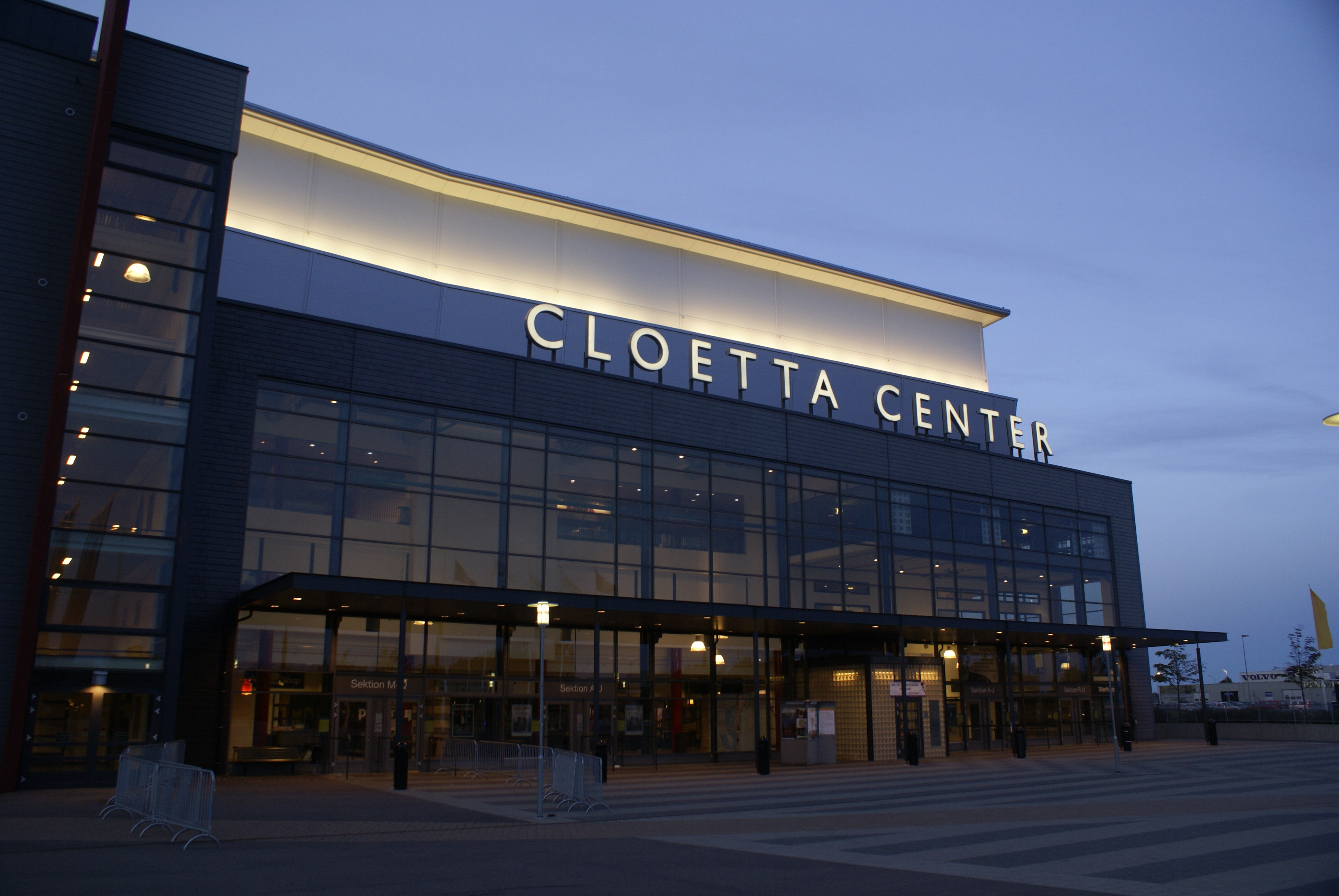 Cloetta Center by night.